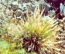 Calamagrostis foliosa. BLM photo, no copyright.